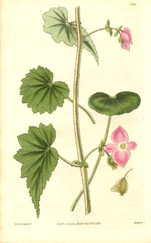 Begoniaceae_-_Begonia_gracilis. Painting by Robert Kaye Greville. From: Curtis's botanical magazine; or flower garden displayed. London, 1830, volume 57 (plate 2966). Hand-coloured engraving by Robert Kaye Greville (sheet 140 x 227 mm)